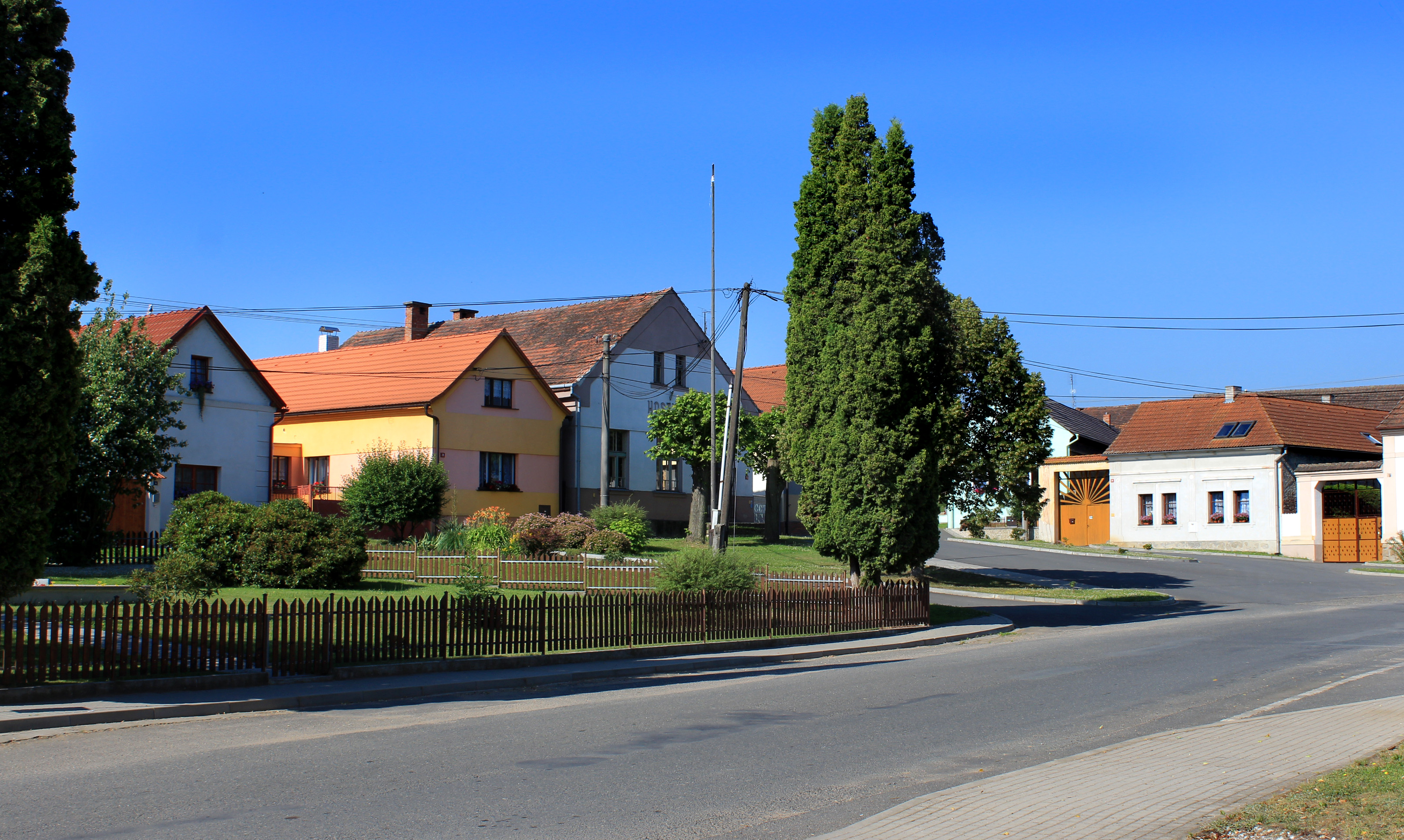 Common in Puclice, Czech Republic.